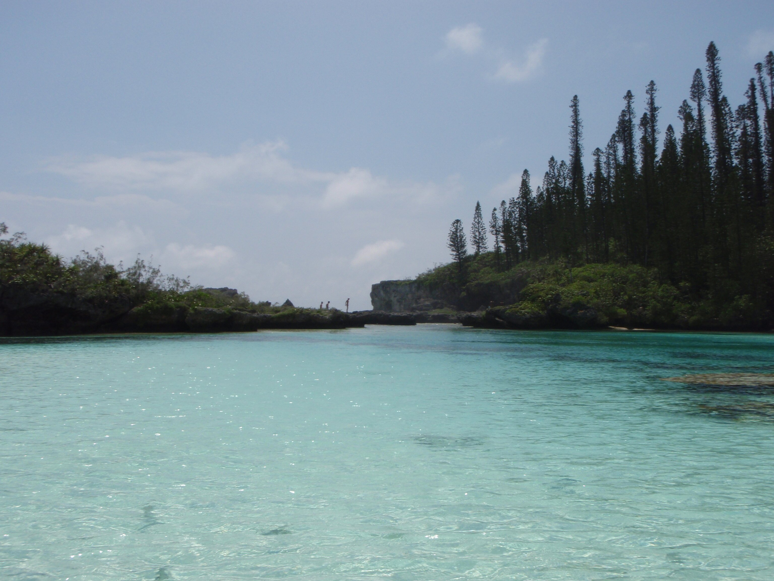 View of the natural aquamarine lagoon of Oro, Île des Pins, New Caledonia. In the center, the inlet feeding the lagoon with water from waves of the ocean. Tall trees are Araucaria columnaris